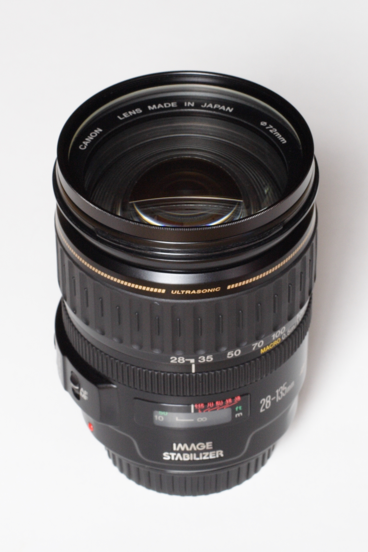 Canon EF28-135mmF3.5-5.6 IS USM